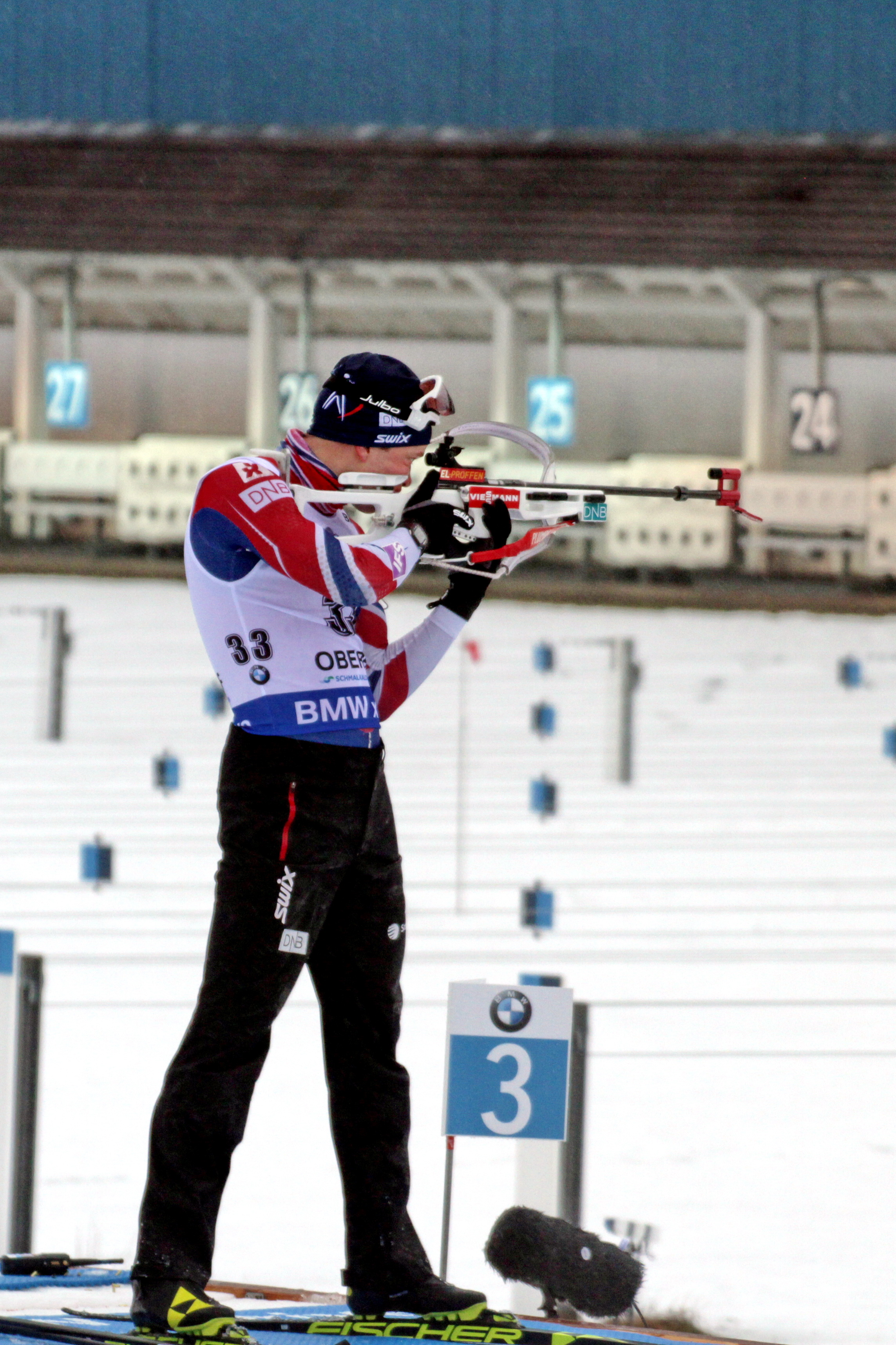 2018 Oberhof Biathlon World Cup - Sprint Men